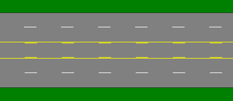 This is a typical 5-lane city street. Created from a JPEG originally uploaded by SuperDude115.